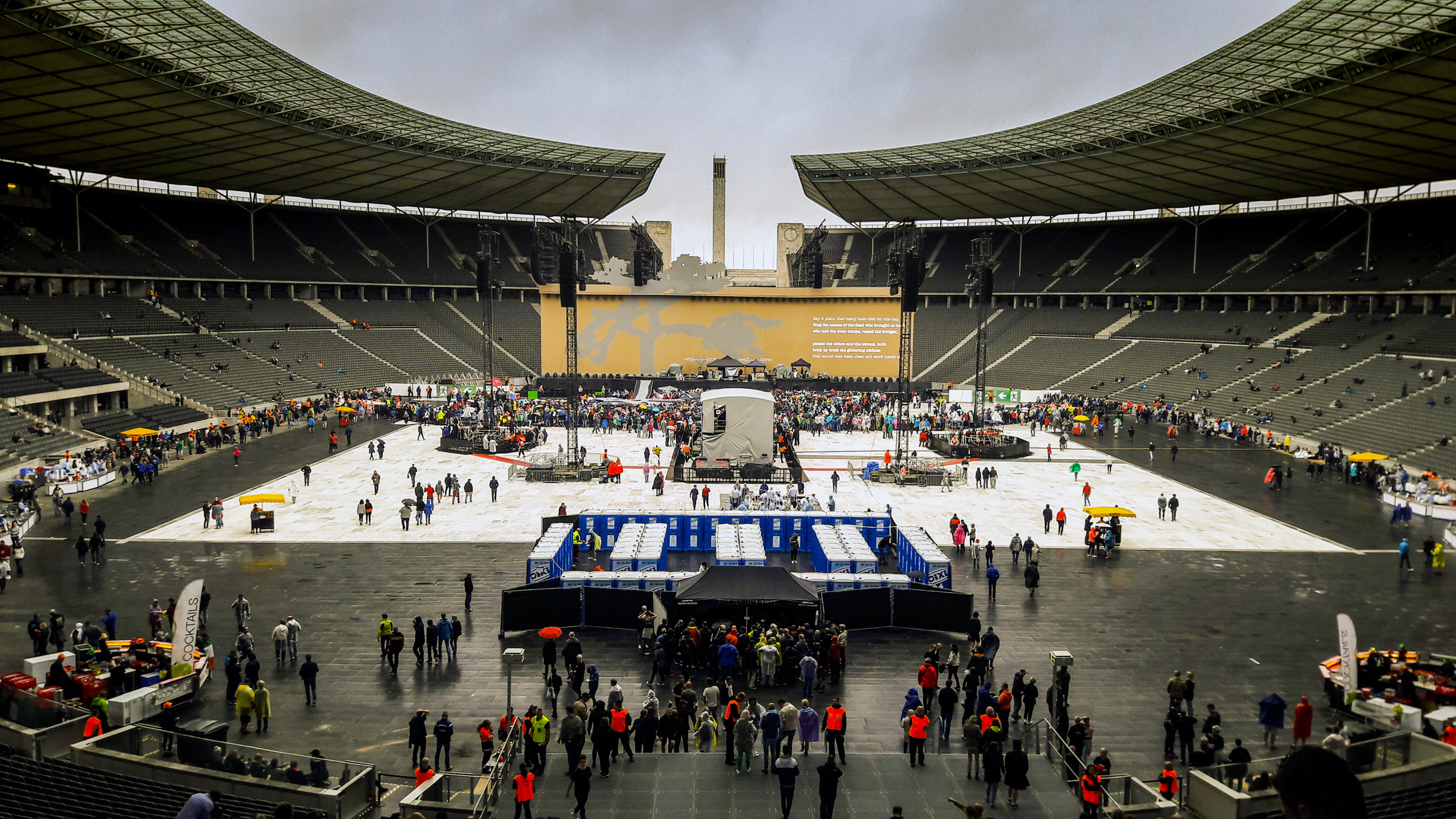 U2's stage for the Joshua Tree Tour 2017 prior to a show in Berlin, Germany on July 12, 2017